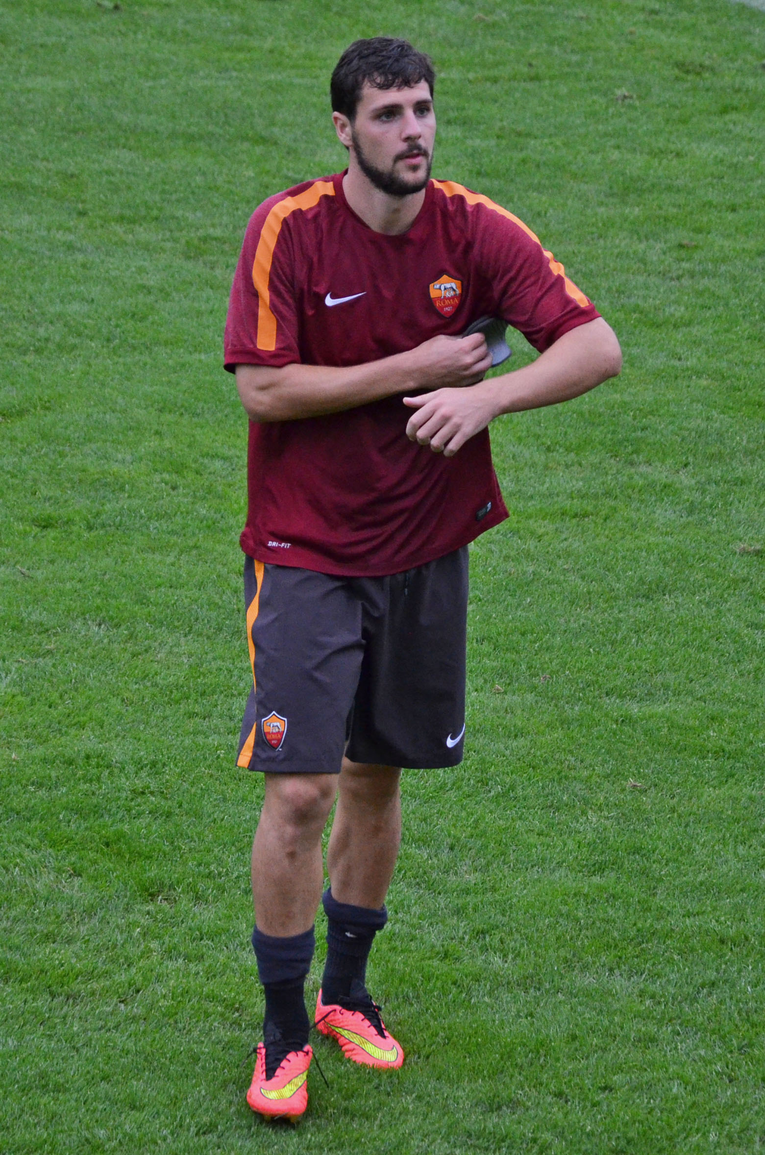 Italian footballer Mattia Destro (AS Roma), Bad Waltersdorf (Austria), 12 August 2014.